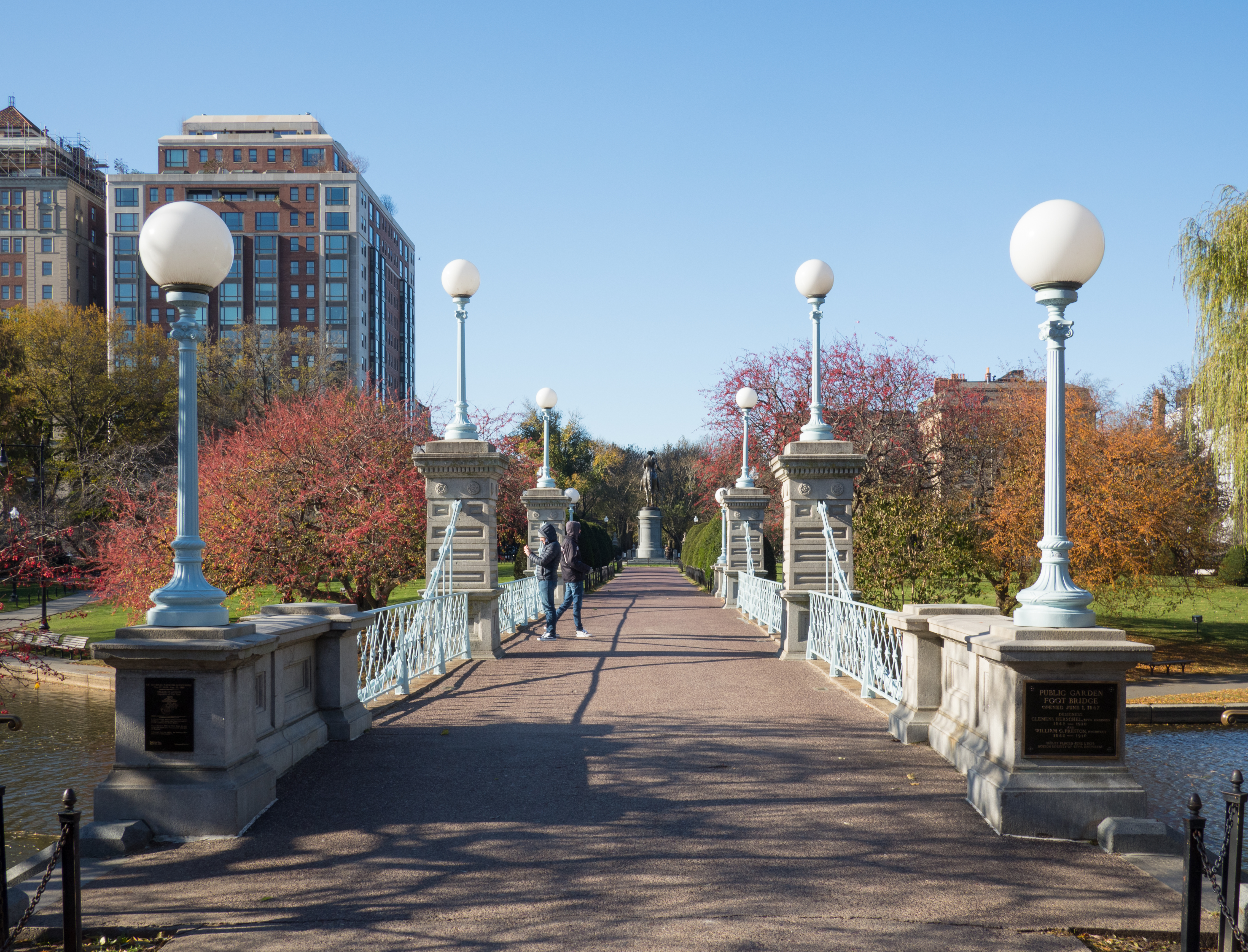 Boston Public Garden in November 2019